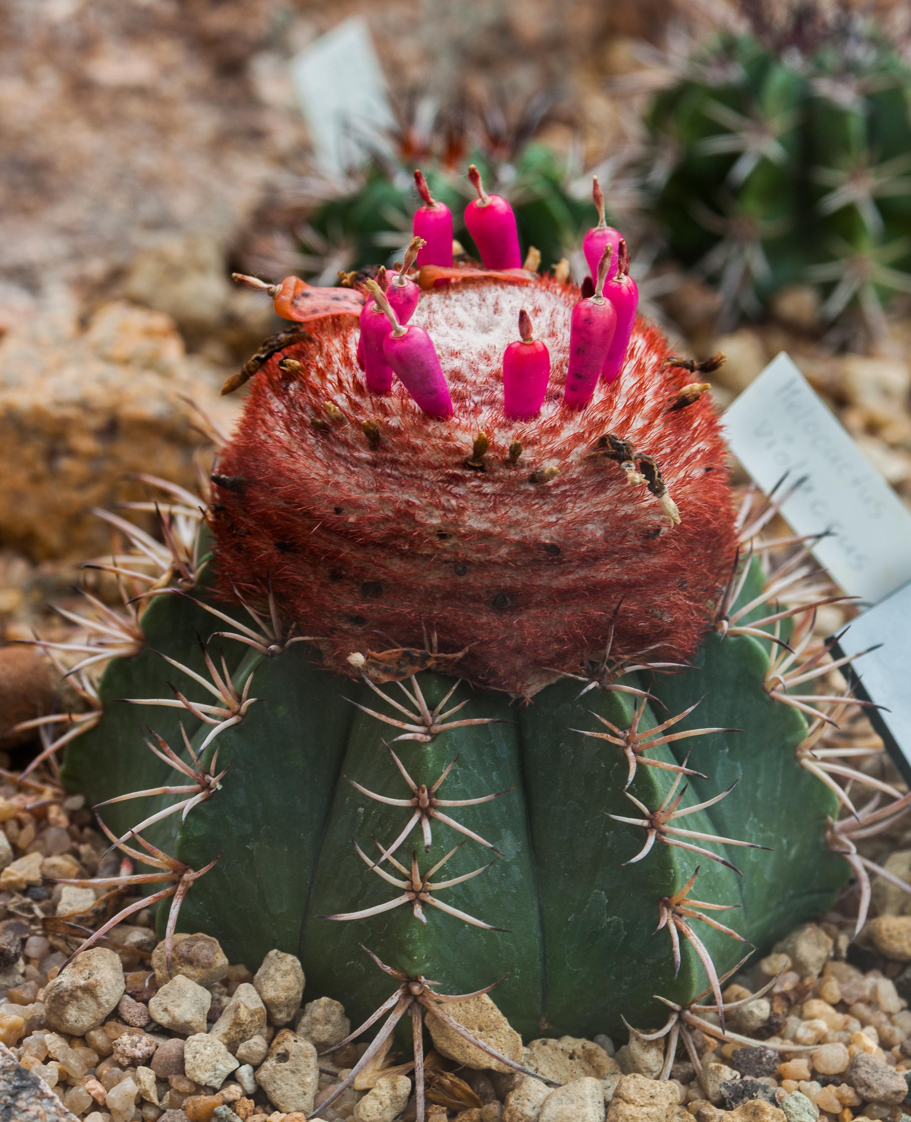 Melocactus violaceus, Munich Botanical Garden, Germany